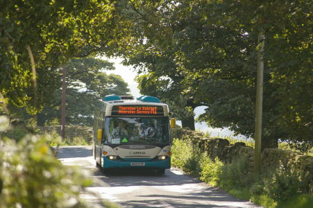 Arriva North East 4663 (NK07 FZF), a Scania OmniCity, on Moorsbus service M1 near Danby.